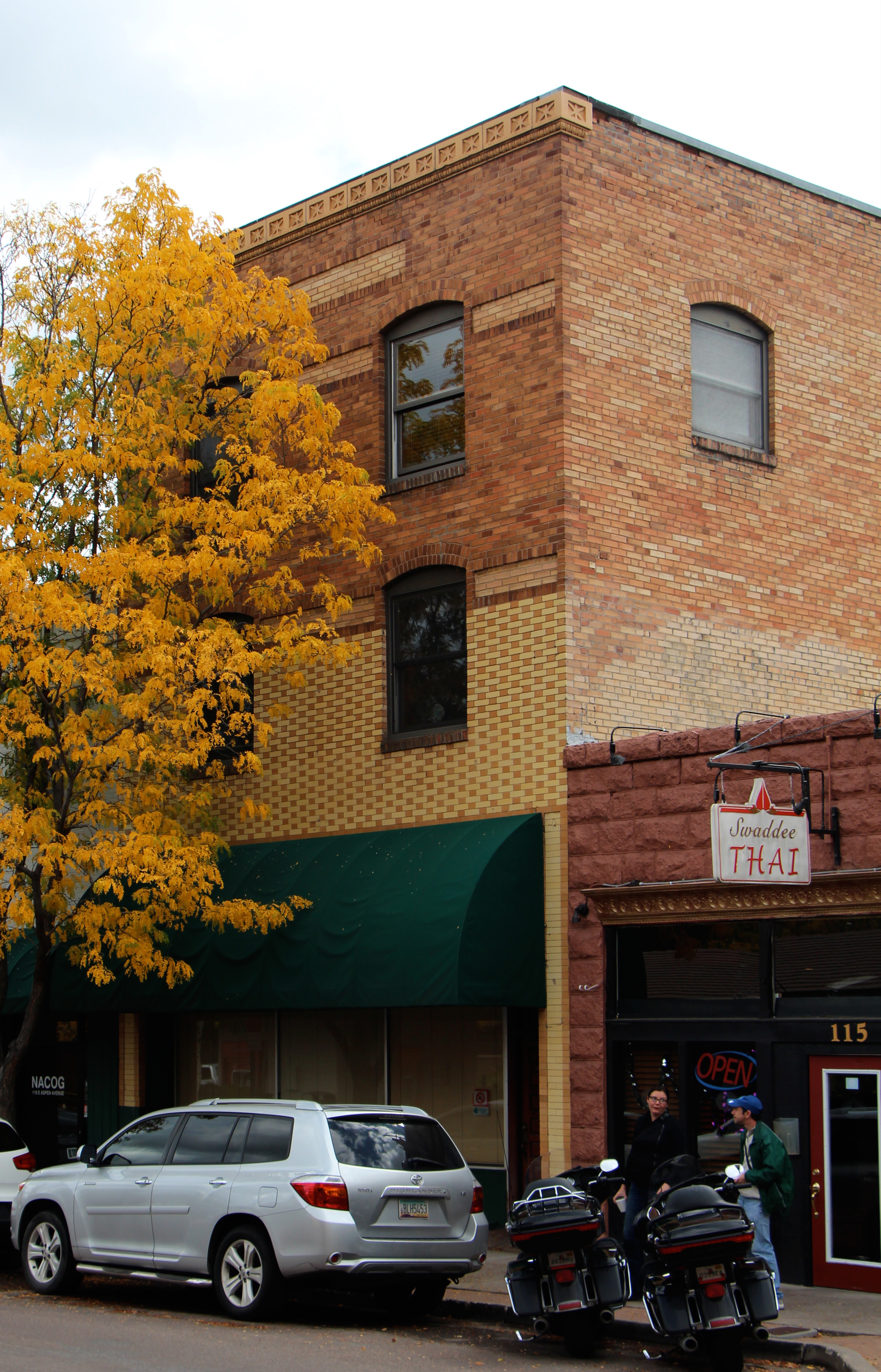 Bikker Building #2, 119 E. Aspen Ave., Flagstaff, AZ